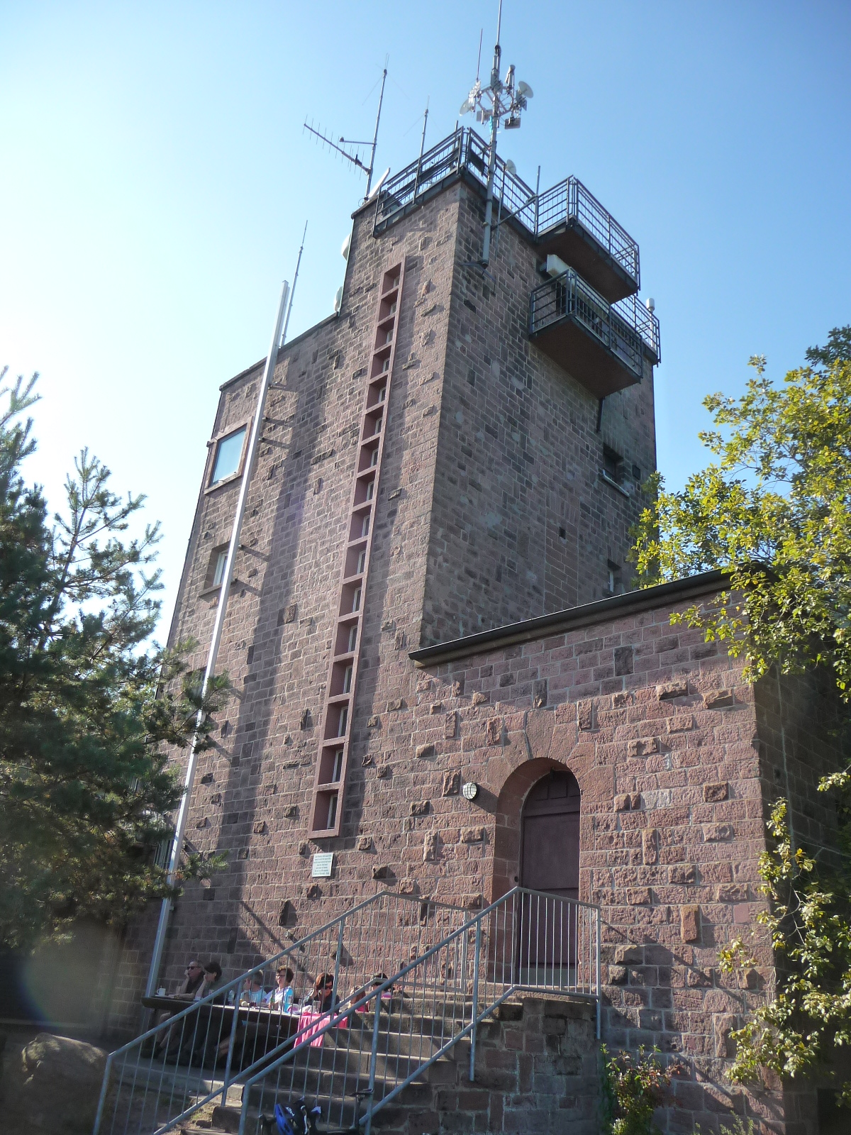 Kalmit